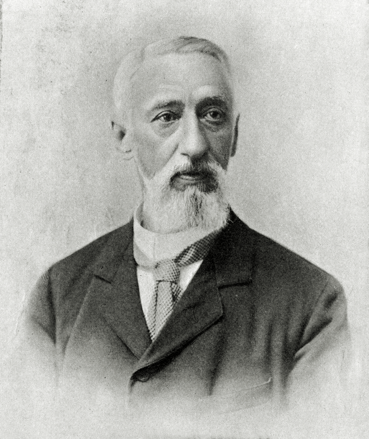 Dr Eduard Johan Pieter Jorissen (1829–1912), Dutch lawyer, judge, politician and church minister who served in various government posts in the South African Republic (or Transvaal) after moving there in 1876 to accept the office of State Attorney. He returned to the Netherlands permanently in 1907 and died there five years later.